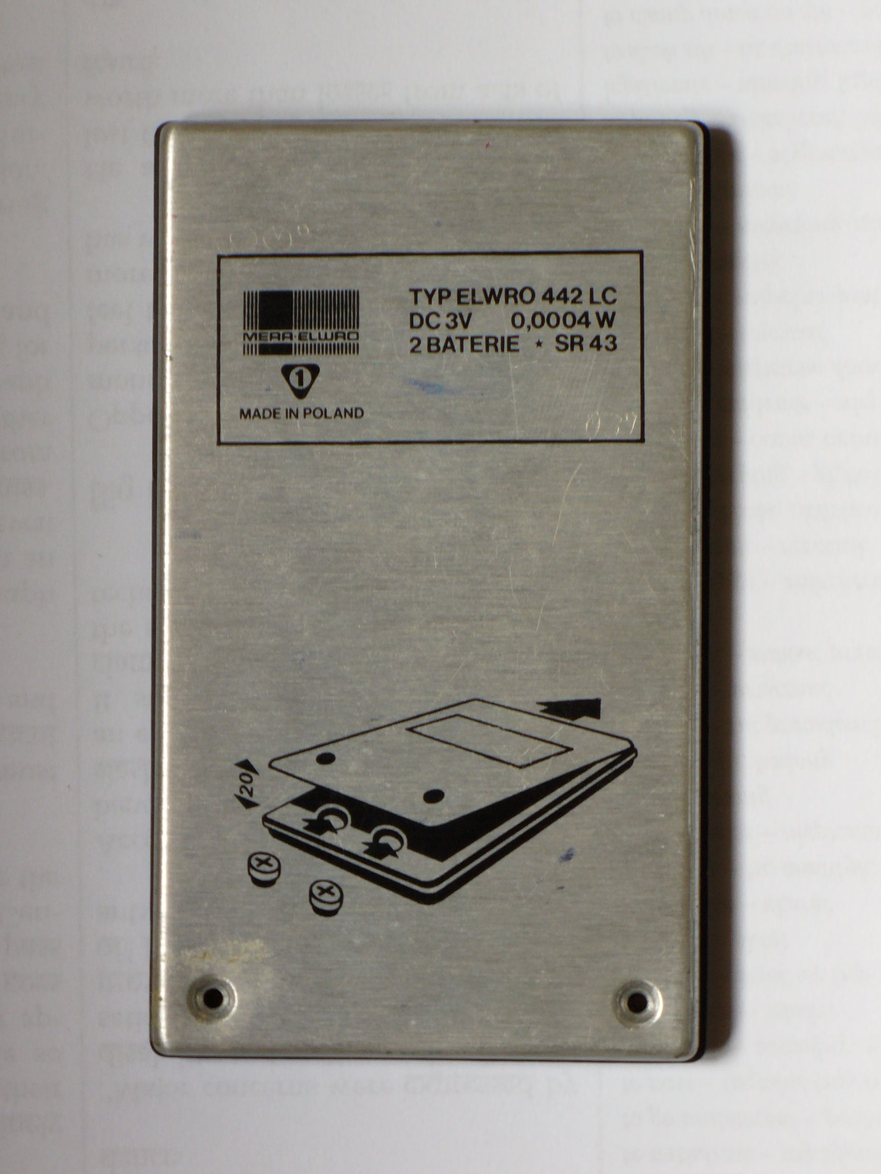 Polish calculator Elwro 442LC Jacek - back panel